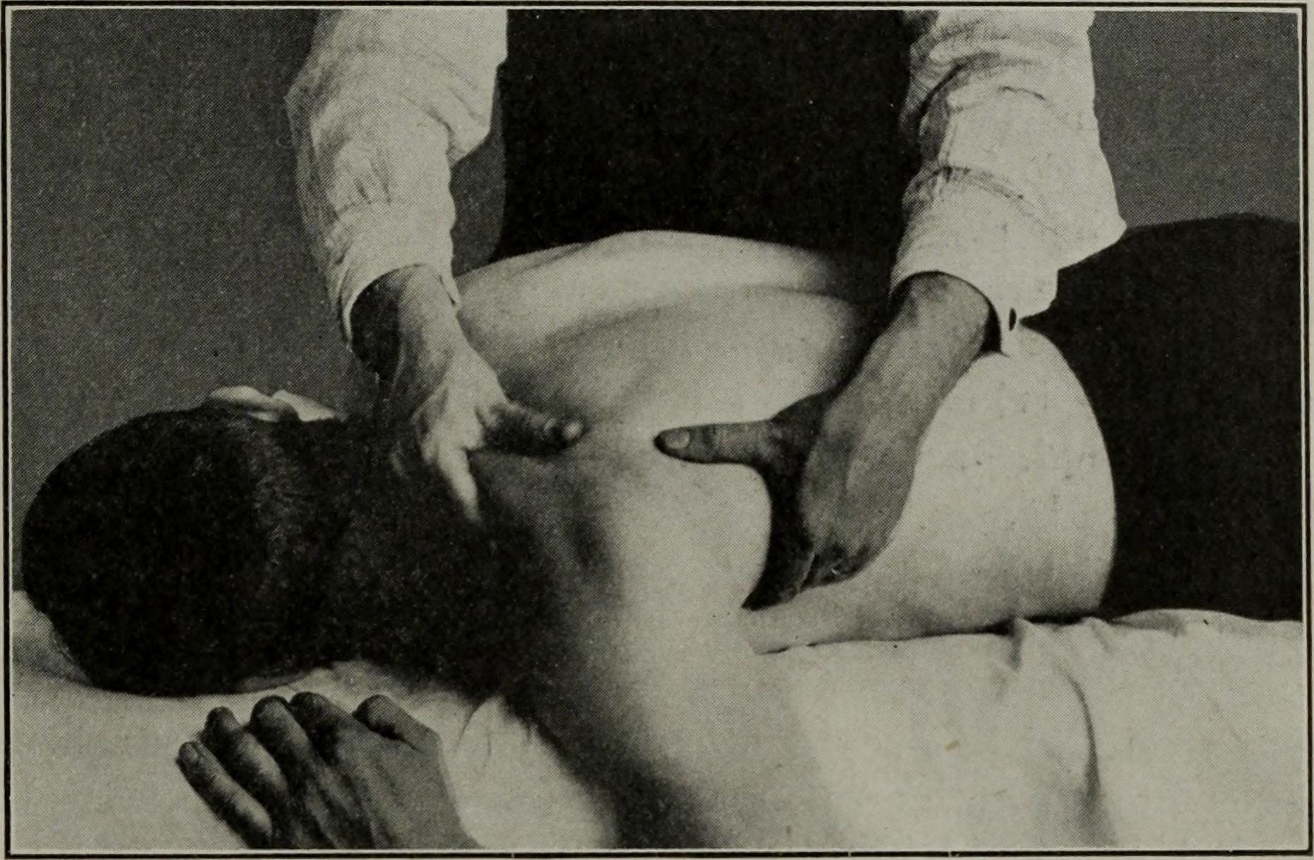 Title: A manual of therapeutic exercise and massage, designed for the use of physicians, students and masseurs Year: 1917 (1910s) Authors: Bucholz, C. Hermann (Carl Hermann), 1874- Subjects: Exercise therapy Massage Publisher: Philadelphia and New York, Lea & Febiger Text Appearing Before Image: Fig. 33.—Kneading of lumbar muscles. UPPER EXTREMITY 99 the patient lying so that the muscles are entirely relaxed;especially in individuals with a marked lumbar lordosis it isof advantage to have a pillow under the abdomen in orderto straighten out the lordotic spine to some extent. Text Appearing After Image: Fig. 34.—-Effleurage and kneading of scapular muscles. Upper Extremity.—IVIassage of the shoulder is done inthe sitting position or lying if marked spasm of the musclesexists. To cover all shoulder muscles sufficiently both aprone and supine position should be taken, or the patientmust lie on the other side. The deltoid muscle is usually divided into two or moreparts. The operator, who sits on the right side of the patient,strokes with his right hand over the anterior, with his lefthand over the posterior, part of the deltoid. This manipula-tion can be done more effectively when for the posterior partthe operator places his left hand underneath the deltoidand the adjoining muscles, using it as a pad over which themuscle is effleuraged, and vice versa for the anterior side;the right hand is used as a pad and the left hand strokes.We also find this method very useful for kneading, whichcan also be done by both hands at the same time, the 100 APPLIED MASSAGE thumb of each hand acting